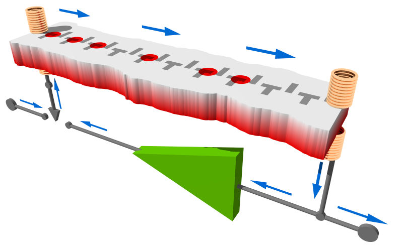 This image shows one "complete loop" of a magnetic bubble memory, consisting of a length of "track" from the orthomagnetic sheet and a minimum of associated drive electronics: At the leftmost end of the track, a pair of coils act as an electromagnet, "launching" new bubbles. These bubbles propagate along the guide pattern track, and wind up at the pair of coils at the opposite end. These coils act as a "pick-up", in which an electrical pulse is formed when a bubble arrives, and this pulse can be read off the output terminal at the lower right-hand corner. The same pulse is amplified and "signal conditioned" in the green amplifier triangle symbole in the middle. During normal (read) operation, the switch to the left is set to lead the output from the amplifier circuit directly to the "bubble-launching" coils, thus re-creating the same series of bits as bubbles "running in circles". When new information is to be written into the memory, the switch i set to direct pulses received at the input terminal at the far left, into the "launcher" coils, thus entering a new "string" of bits in the form of bubbles.